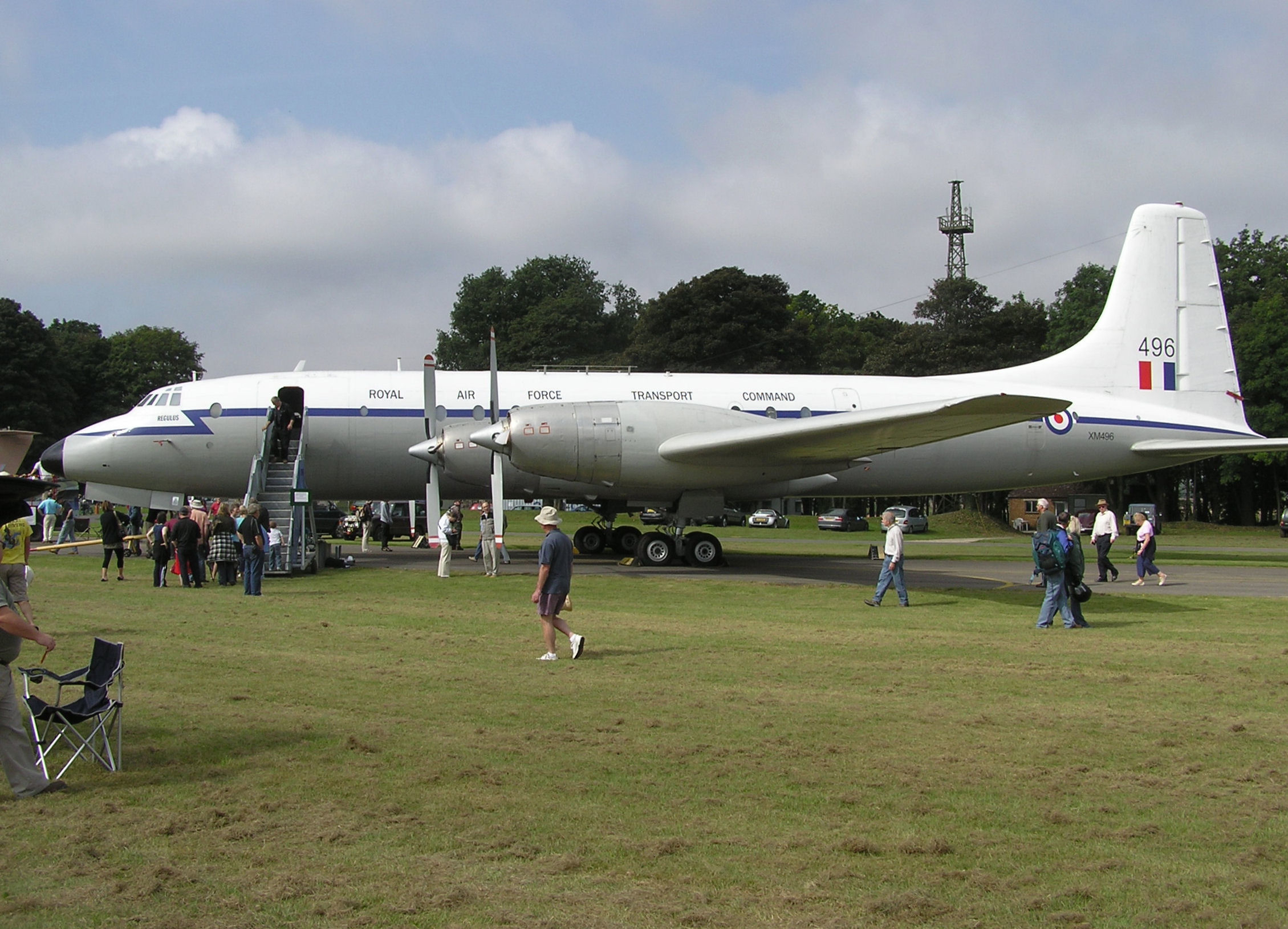 Ex-RAF Transport Command Bristol Britannia ‘’Regulus‘’ (RAF serial XM496) is being restored by the Bristol Britannia Preservation Society at Kemble Airport, Gloucestershire, England. Built in Belfast, Northern Ireland, first flight 24th August 1960, delivered to the RAF 17th September 1960, withdrawn from RAF service 27th October 1975. The aircraft was then used by several airlines until being brought to Kemble and painted in RAF colours. The aircraft will be preserved as a ground exhibit, there are no plans to ever fly it.